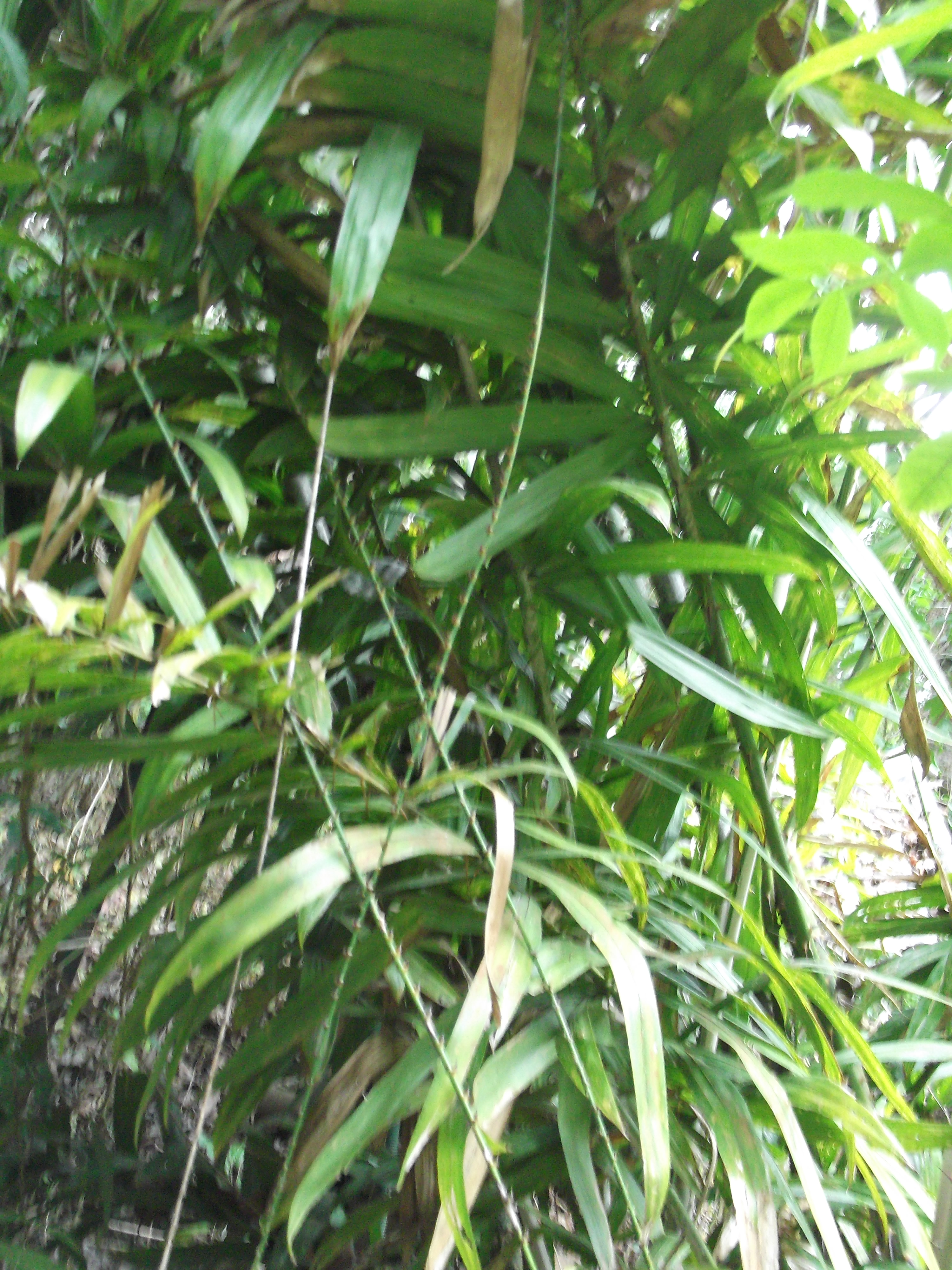 Rattan palm-tall climbing,spiny,leaves tip long spiny projections.